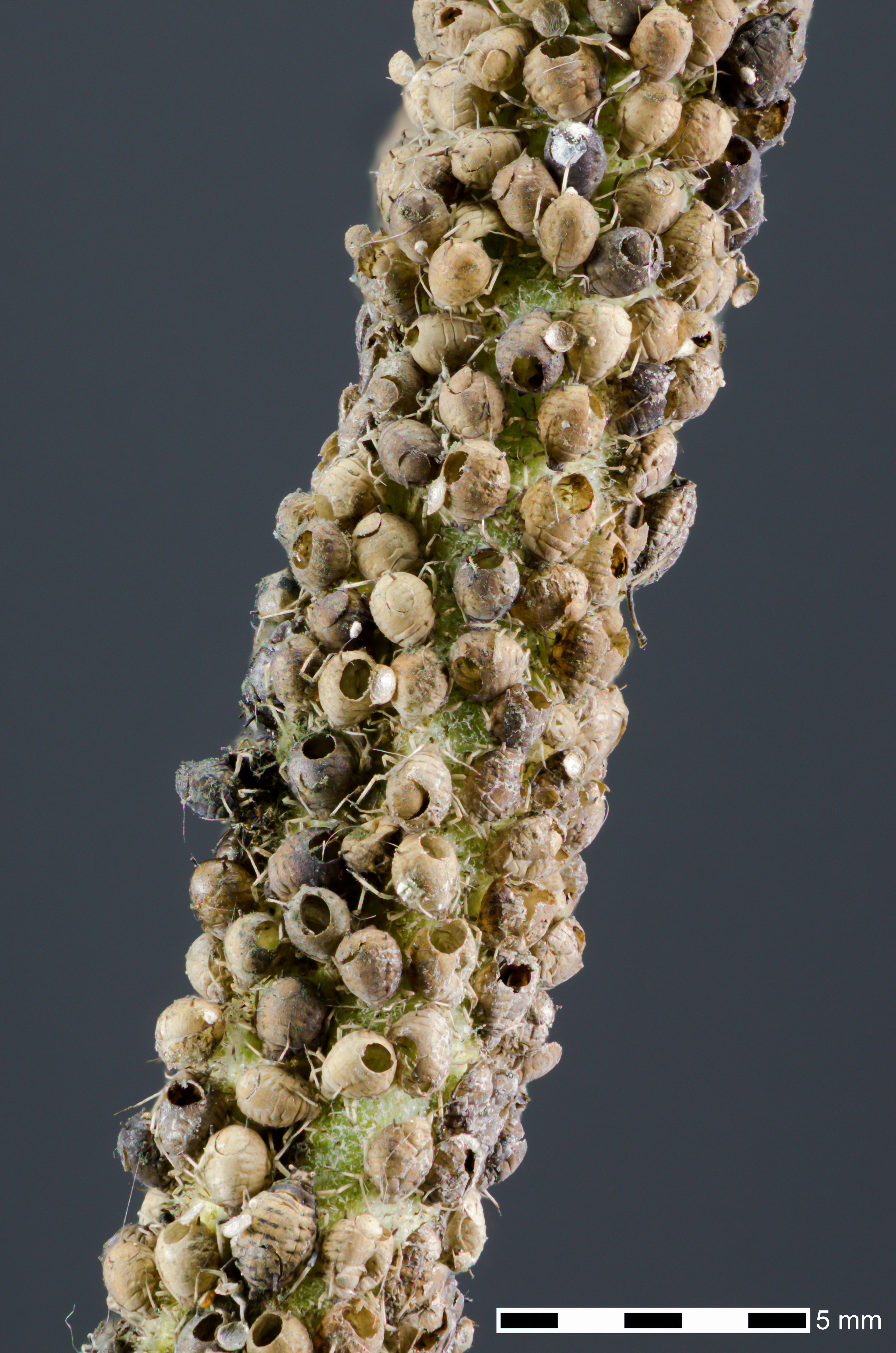 Aphids (Family Aphididae, most likely Aphis fabae) that were parasitized by wasps/aphidiids (subfamily Aphidiinae) on red foxglove (Digitalis purpurea): The wasp injects an egg into the aphid. The larvae grow in the aphids, they eat from the inside out completely and then cut a round hole in the aphid, through which they finally leave the host. Focus stack produced with Helicon Focus from 30 images.